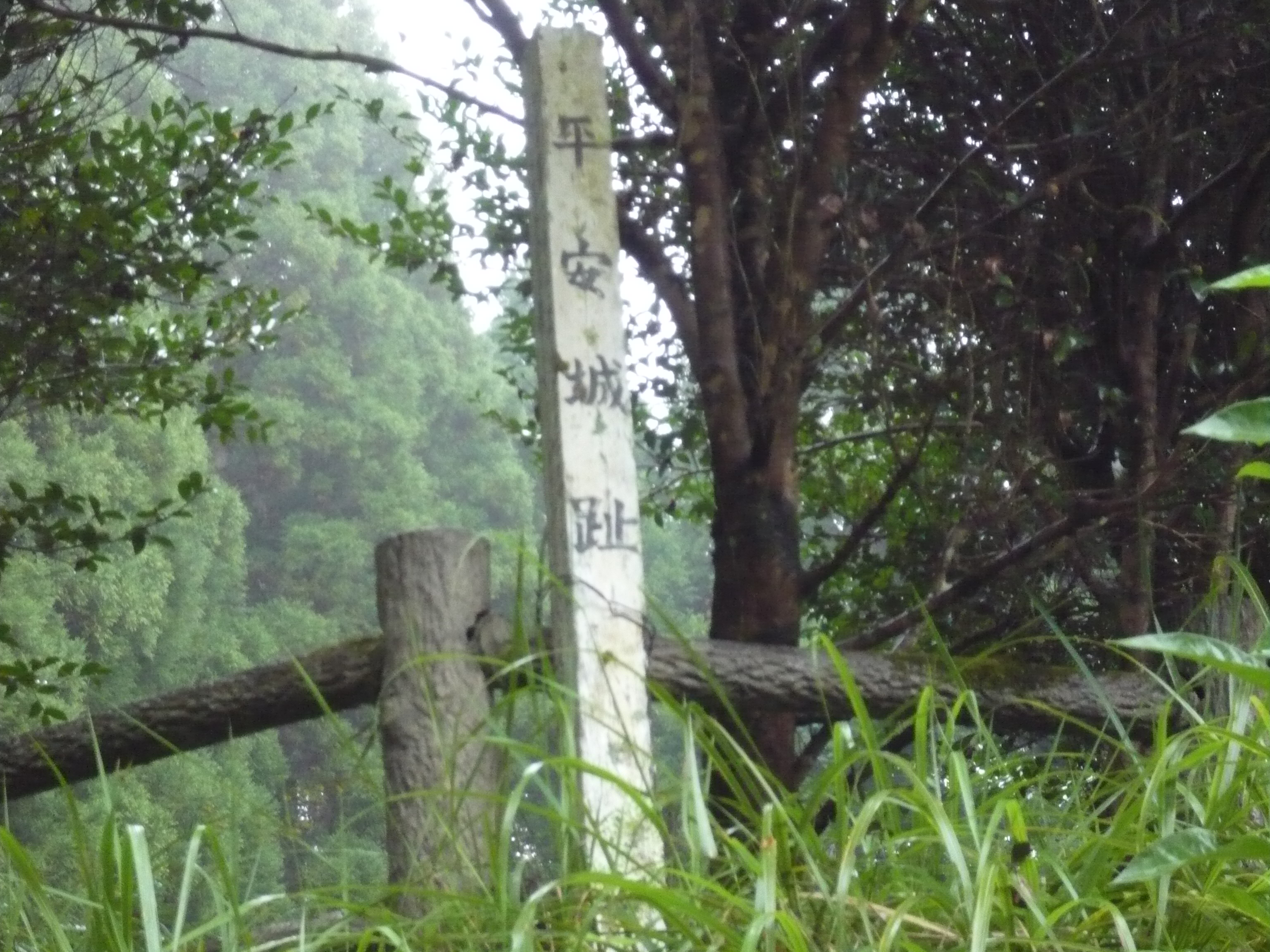 The Site for Heian Castle Kagoshima Japan